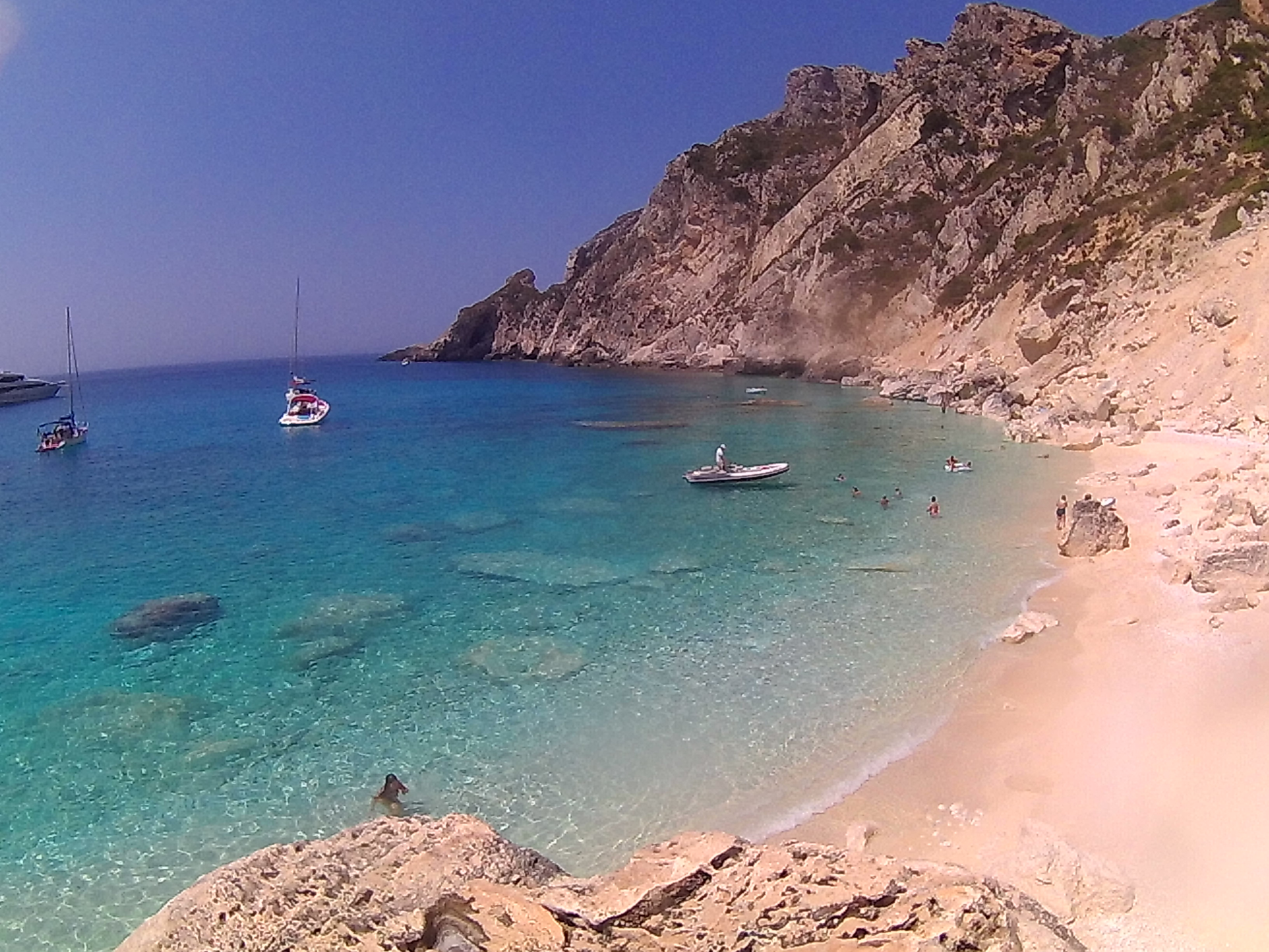 Aspri ammos beach, Othoni island, Greece